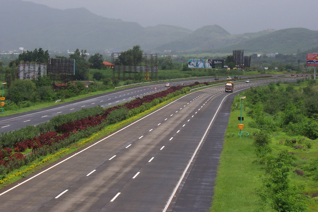 Author: Rohit Patwardhan Uploaded to wiki by User:nikkul